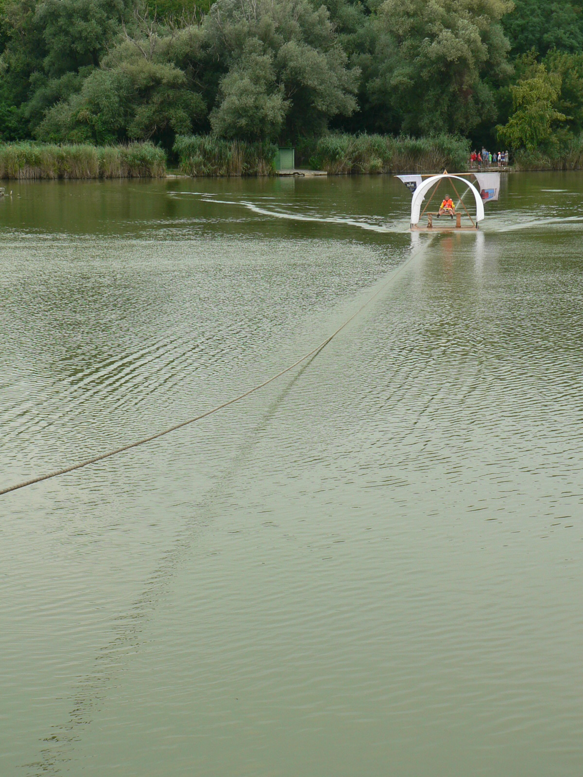 Pillanatkép a 2013-as tutajhúzó versenyről